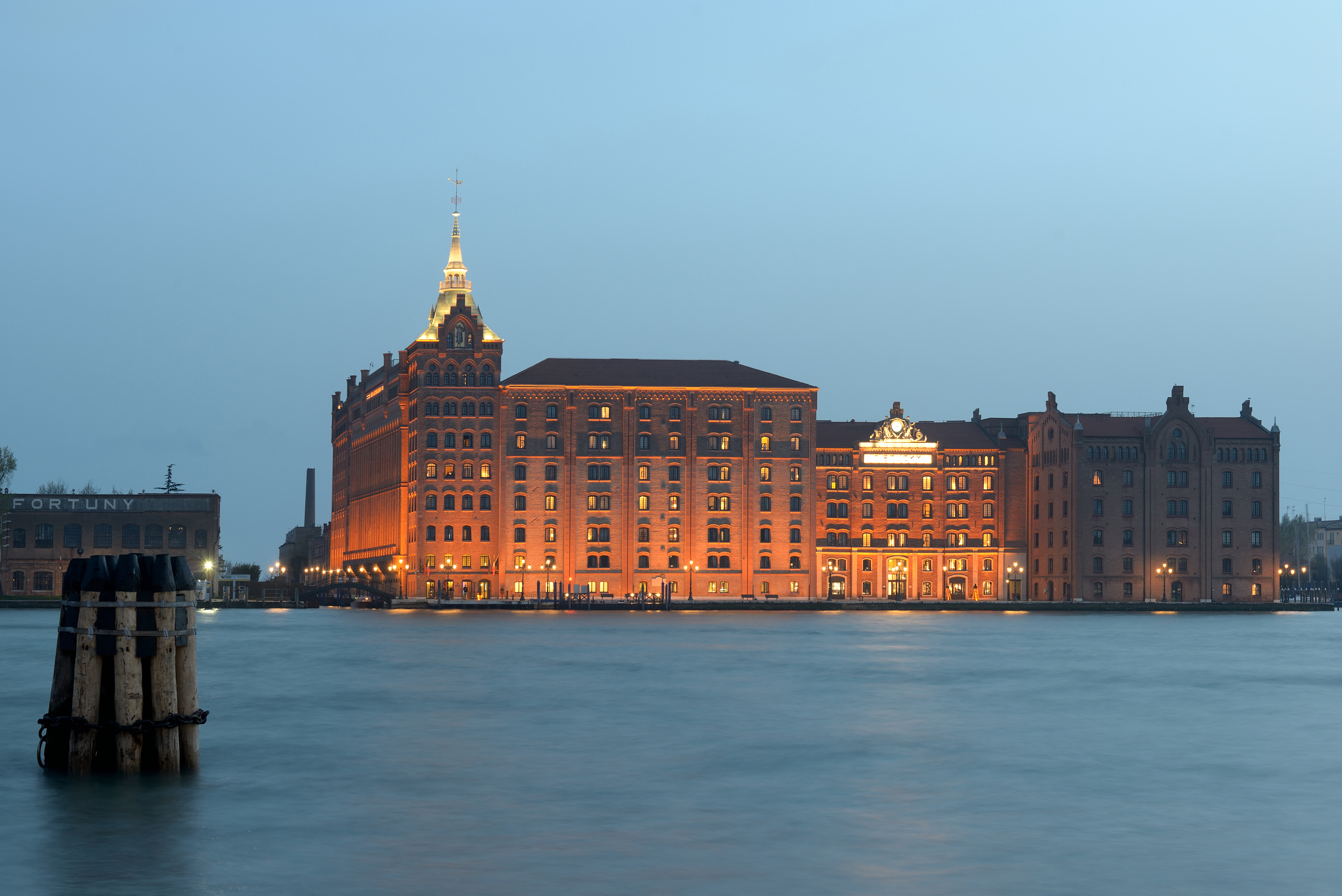 The Molino Stucky on the Giudecca Canal, evening view in Venice.